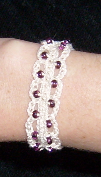 Crochet bracelet during construction. Made from mercerized cotton, sterling silver, and glass beads. Original design.